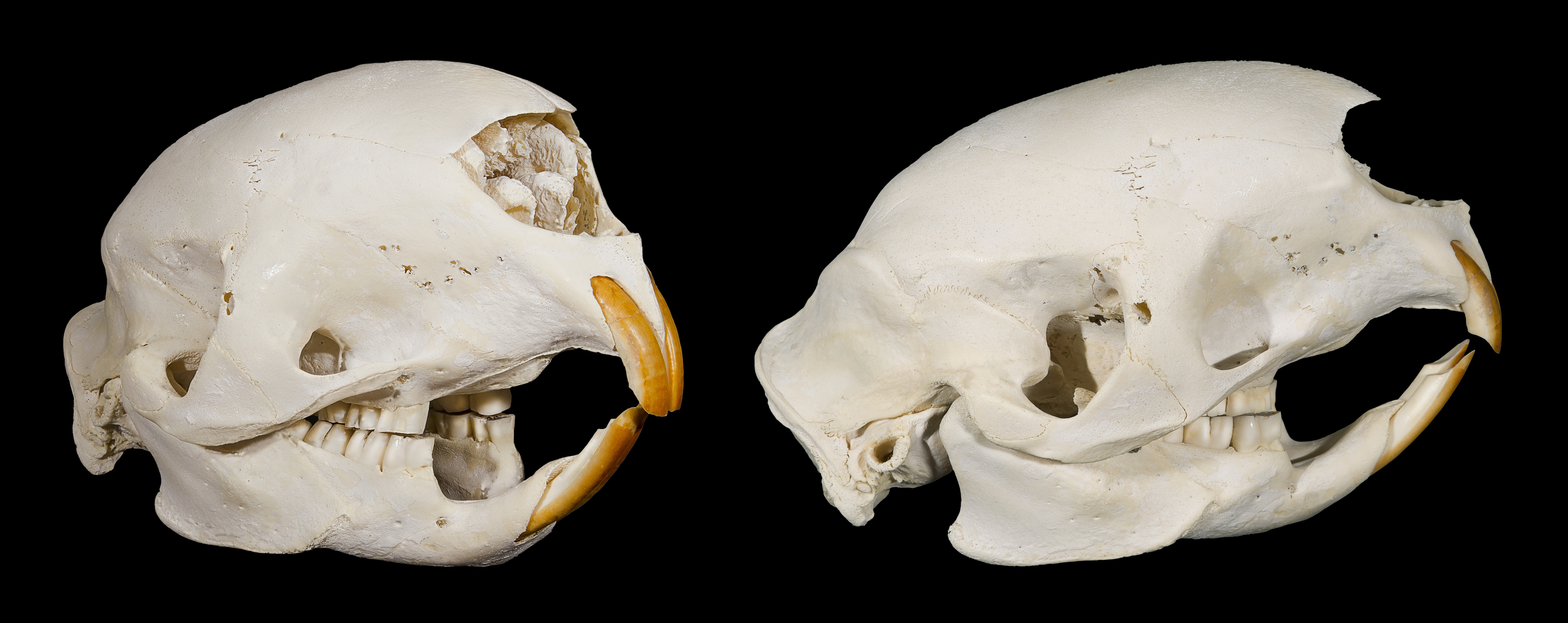 Crested Porcupine ( Hystrix cristata ) - Two views of the same skull Size : 13 x 7 x 9 cm